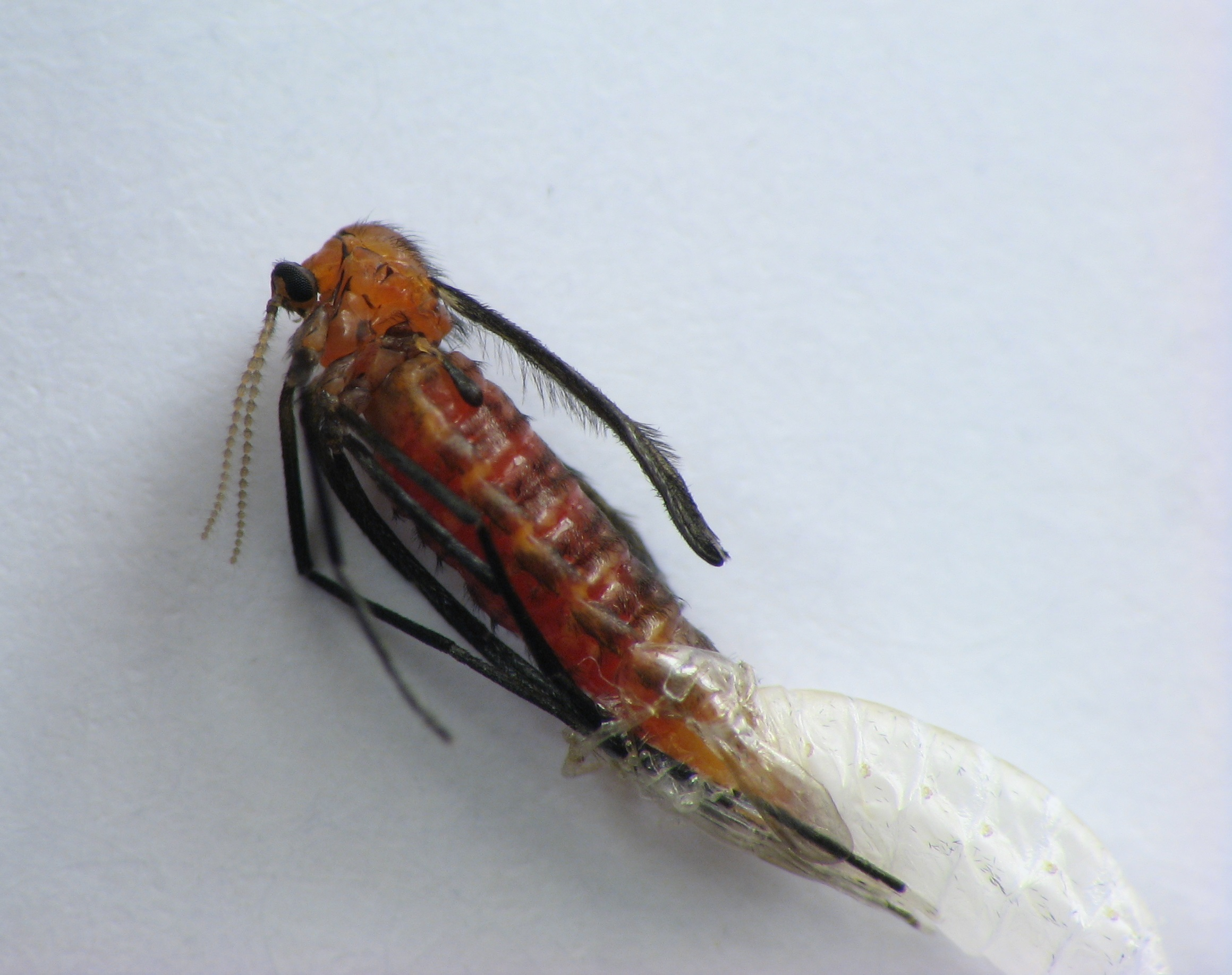 Goldenrod bunch gall fly, Rhopalomyia solidaginis, adult female eclosing from the pupal case. Size: 5.5-6 mm. Peace Valley Nature Center, Bucks County, Pennsylvania, USA.